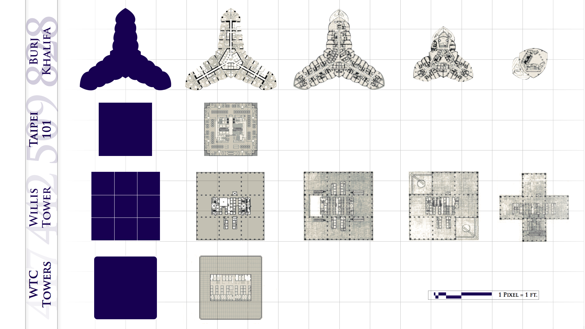 Comparison of Burj Dubai floorplans with other supertall skyscrapers.